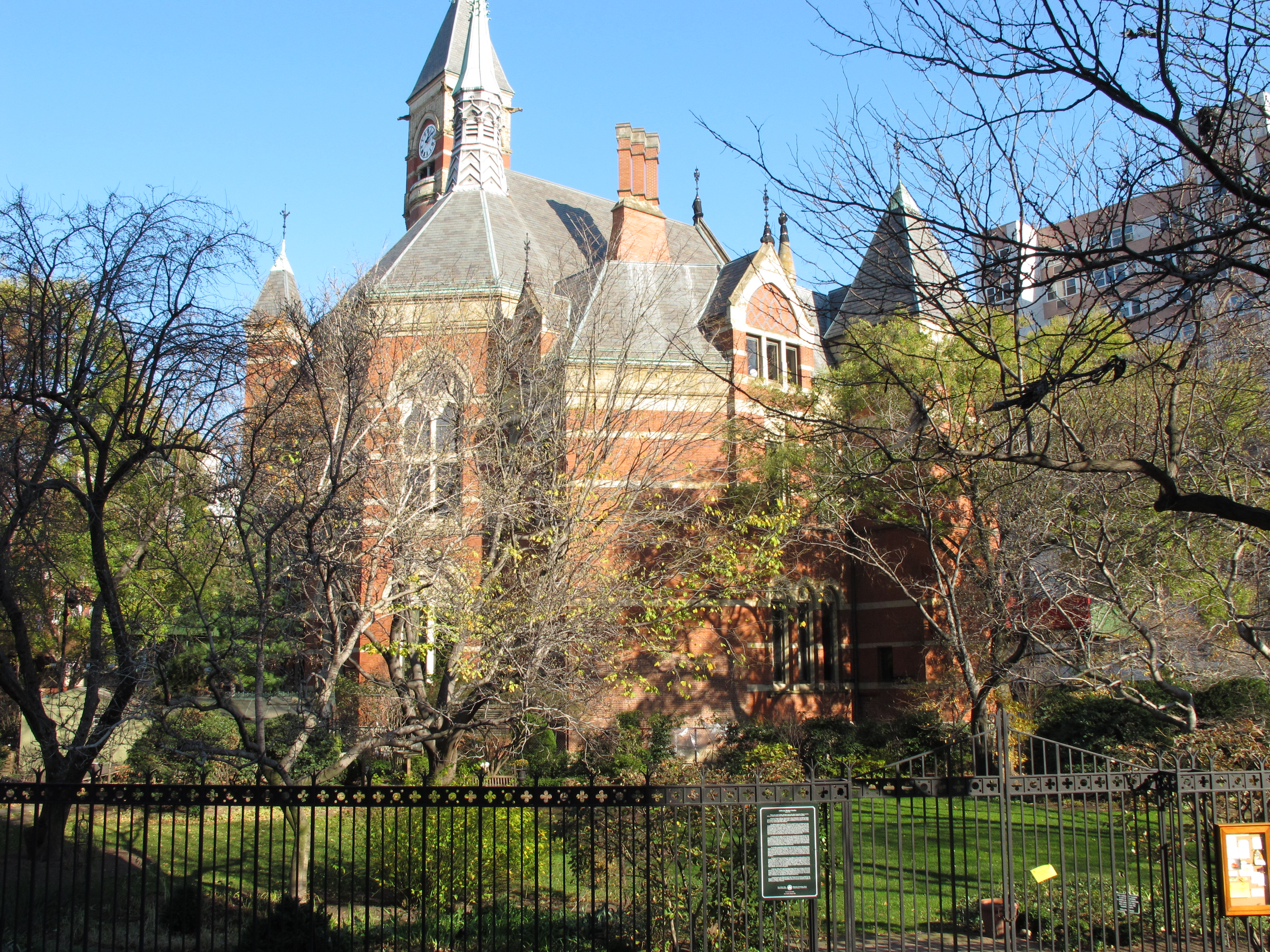 Manhattan, New York City